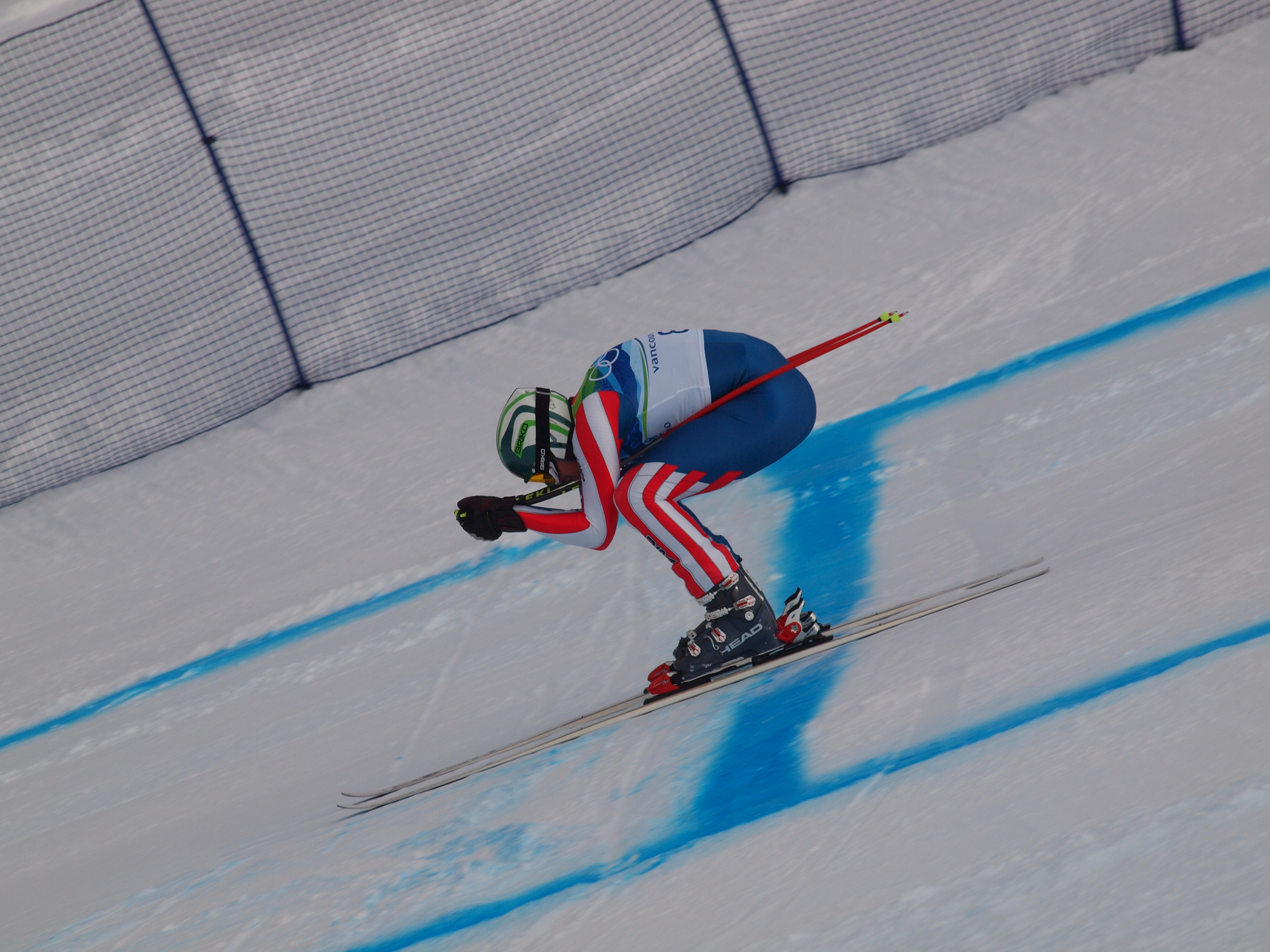 Bode Miller at the 2010 Winter Olympic downhill.